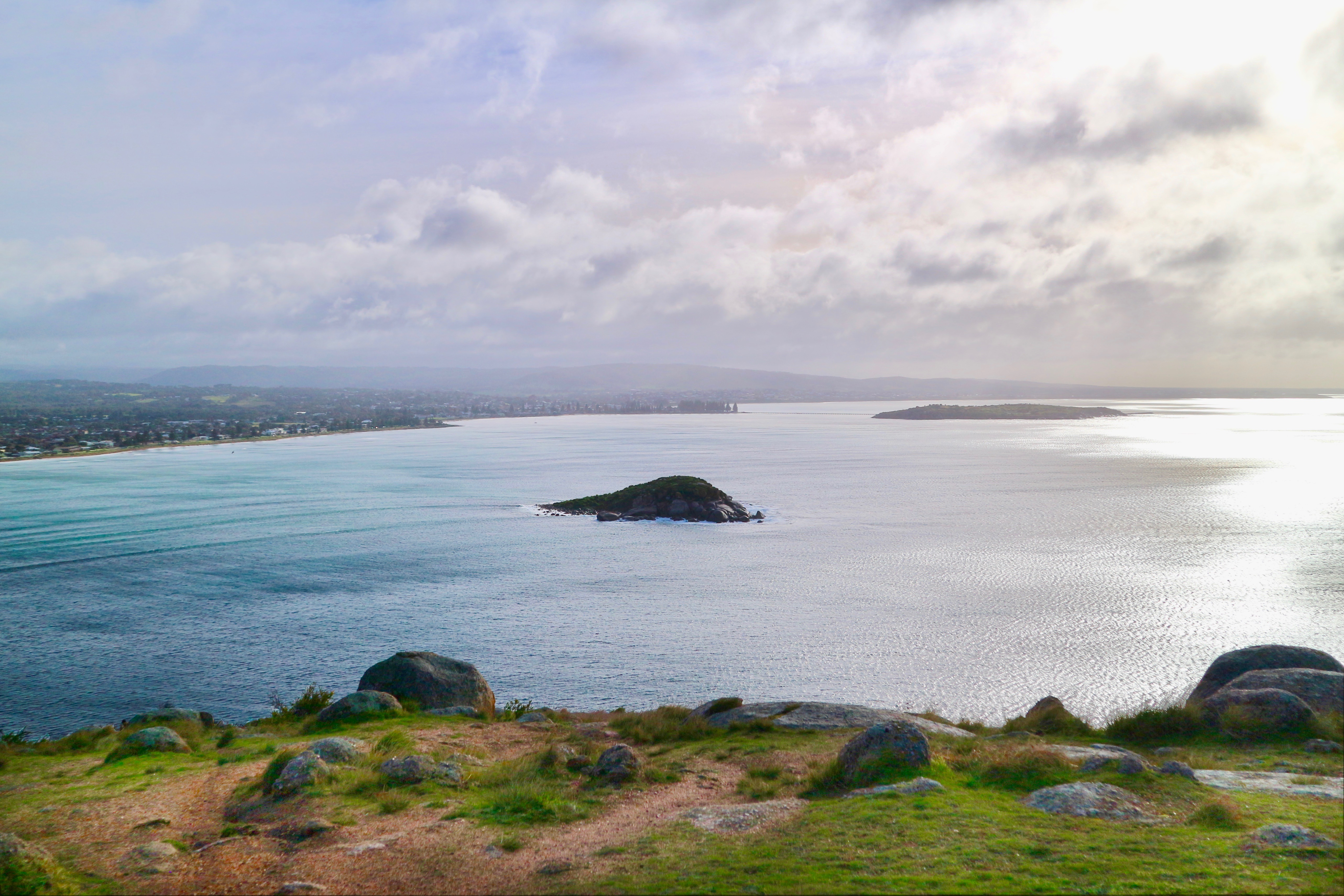 Victor Harbor and Encounter Bay as viewed from Rosetta Head (the Bluff)